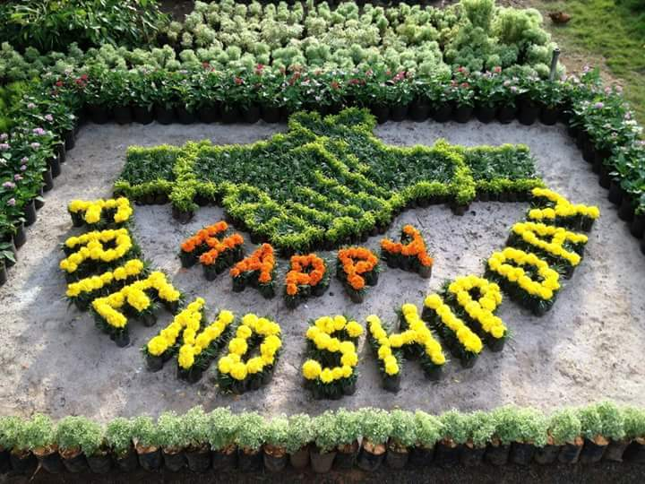 The evergreen friendship sculptured by evergreen leaves and blossoms